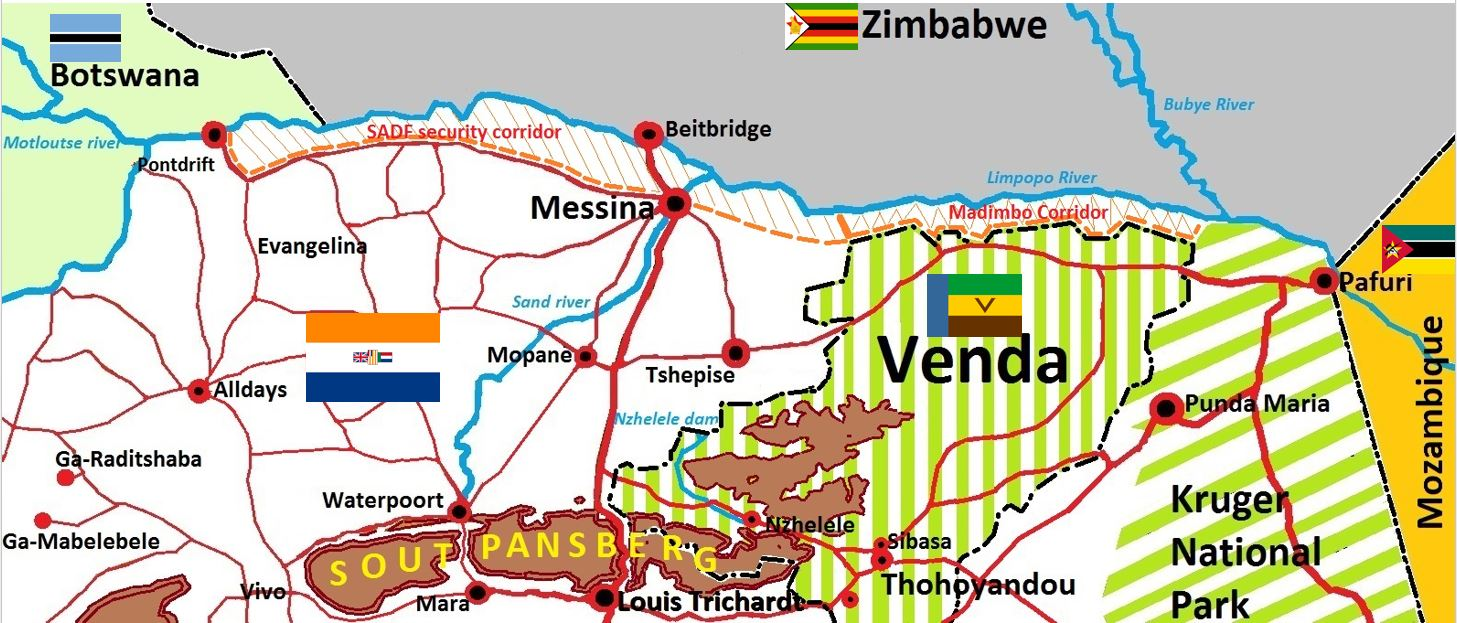 SADF Soutpansberg Military Area updated